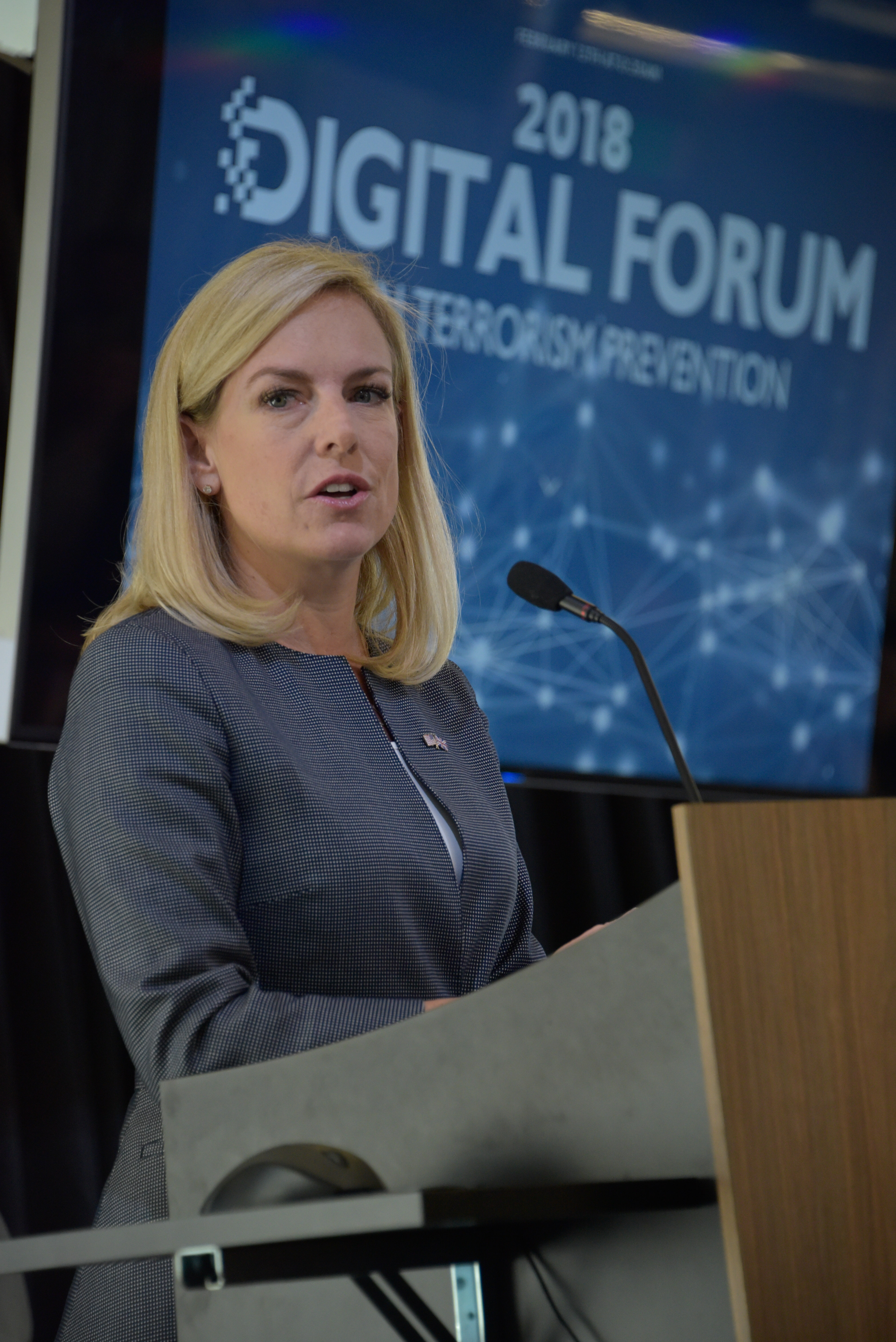 PALO ALTO, Calif. - Secretary of Homeland Security Kirstjen Nielsen delivers remarks during the 2018 Digital Forum on terrorism prevention in Palo Alto, California, Feb. 13, 2018. Secretary Nielsen was joined by U.K. Home Secretary Amber Rudd. Official DHS photo by Jetta Disco.